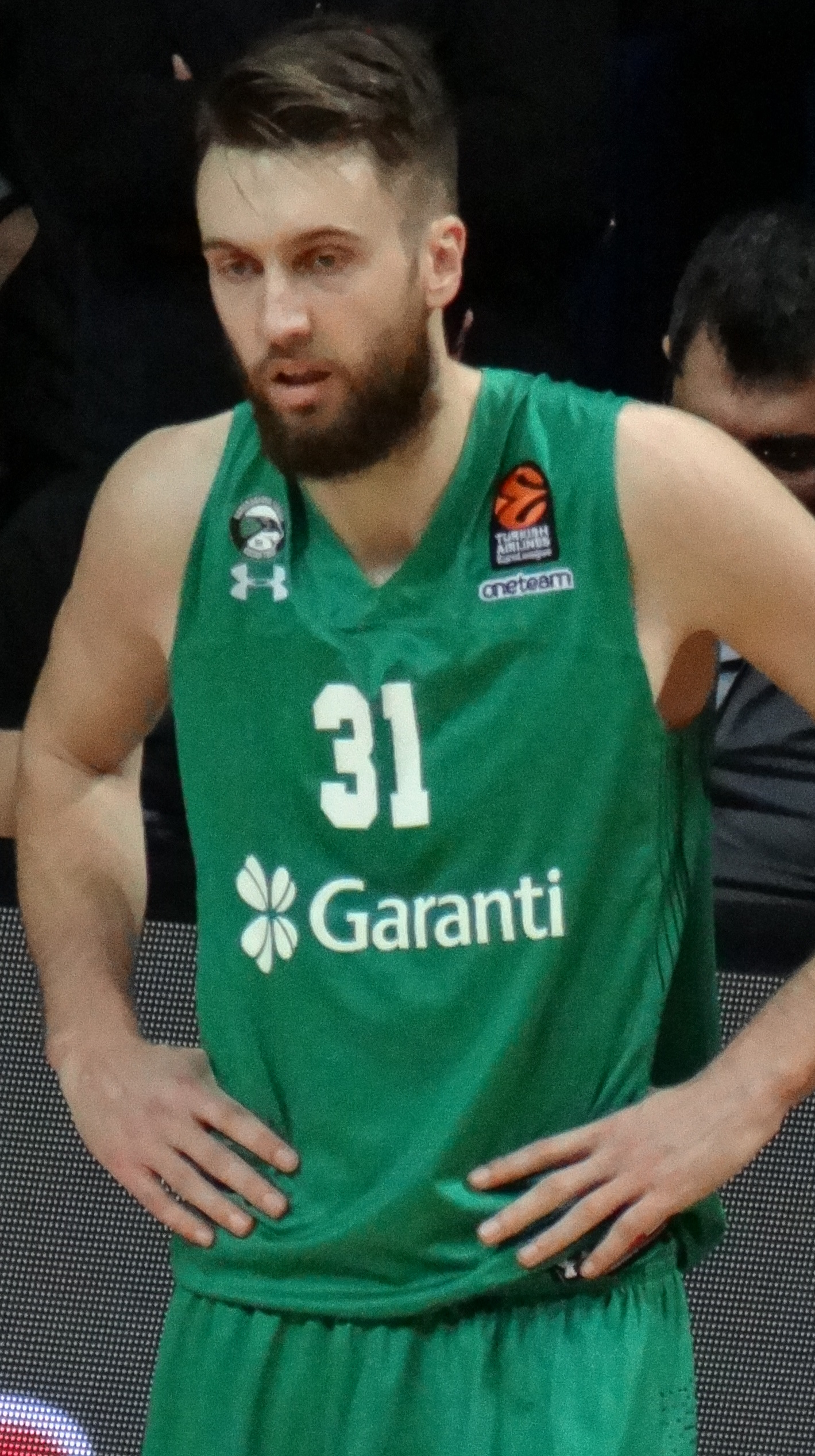 Žanis Peiners 31 Darüşşafaka Tekfen 20181120